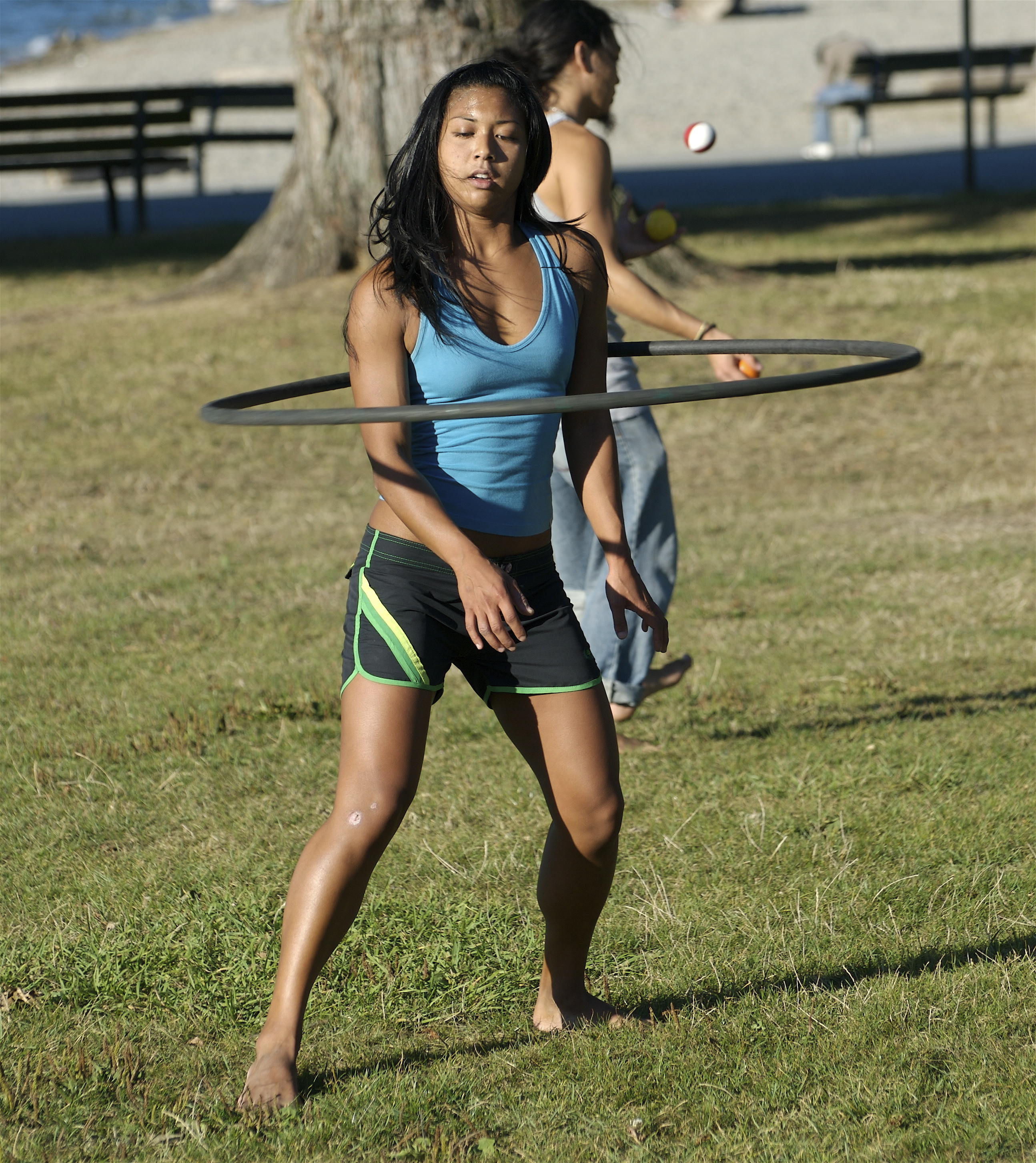 Brazilian woman practising Hula Hoop